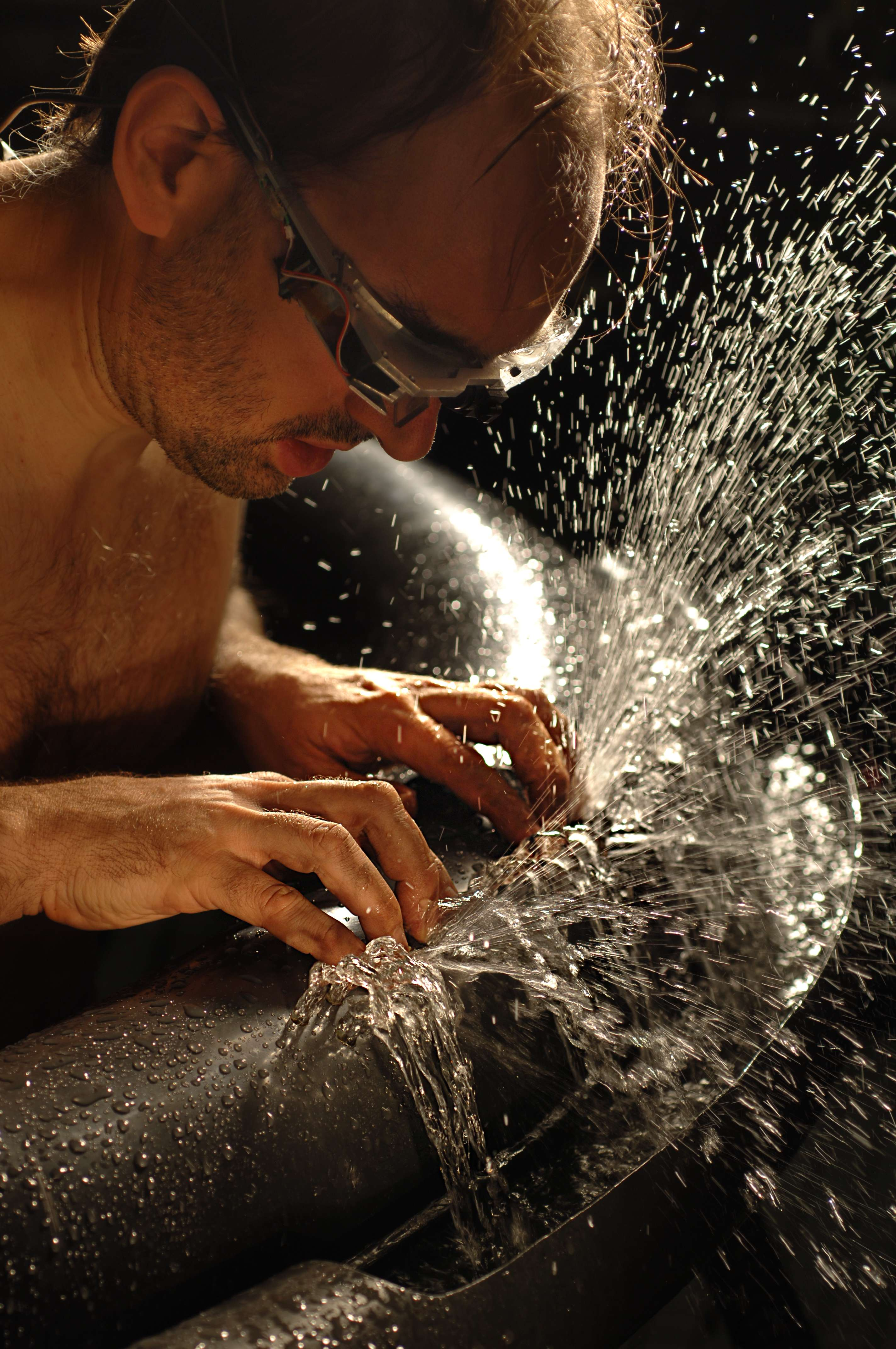 Musical applications of weatherproof eyetap systems, e.g. where printed matter, loose papers, etc., are impractical. For example, the hydraulophone is a musical instrument that is also a fountain, and it's not practical to have loose papers in a fountain.